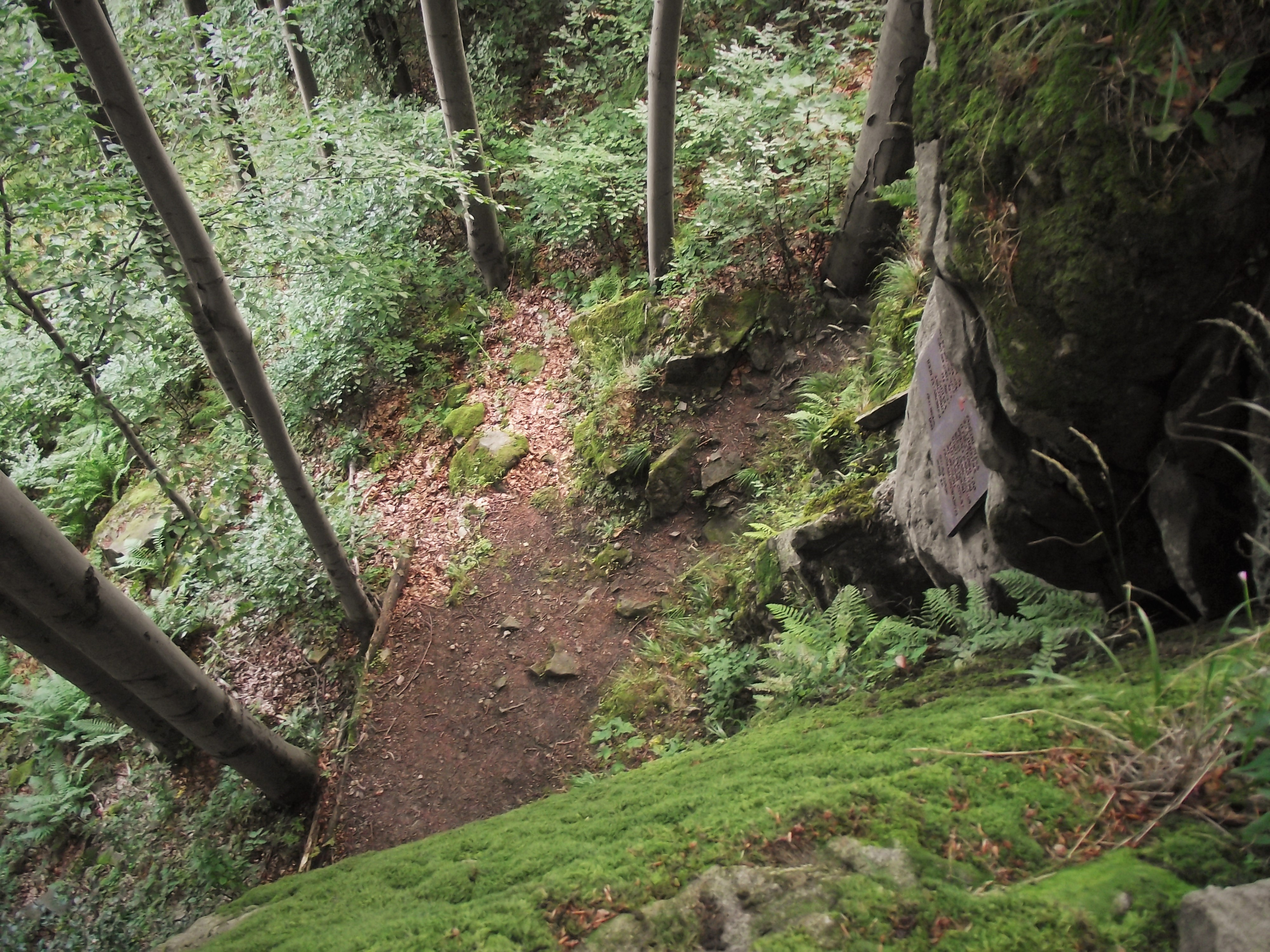 "The forest church" - a secret Lutheran service place used in the time of the Counter-Reformation at the place called Zakamiyń ("Behind the Stone") in Nýdek on the west side of Czantoria Mount. On the rock the plaque commemorating George Tranoscius.